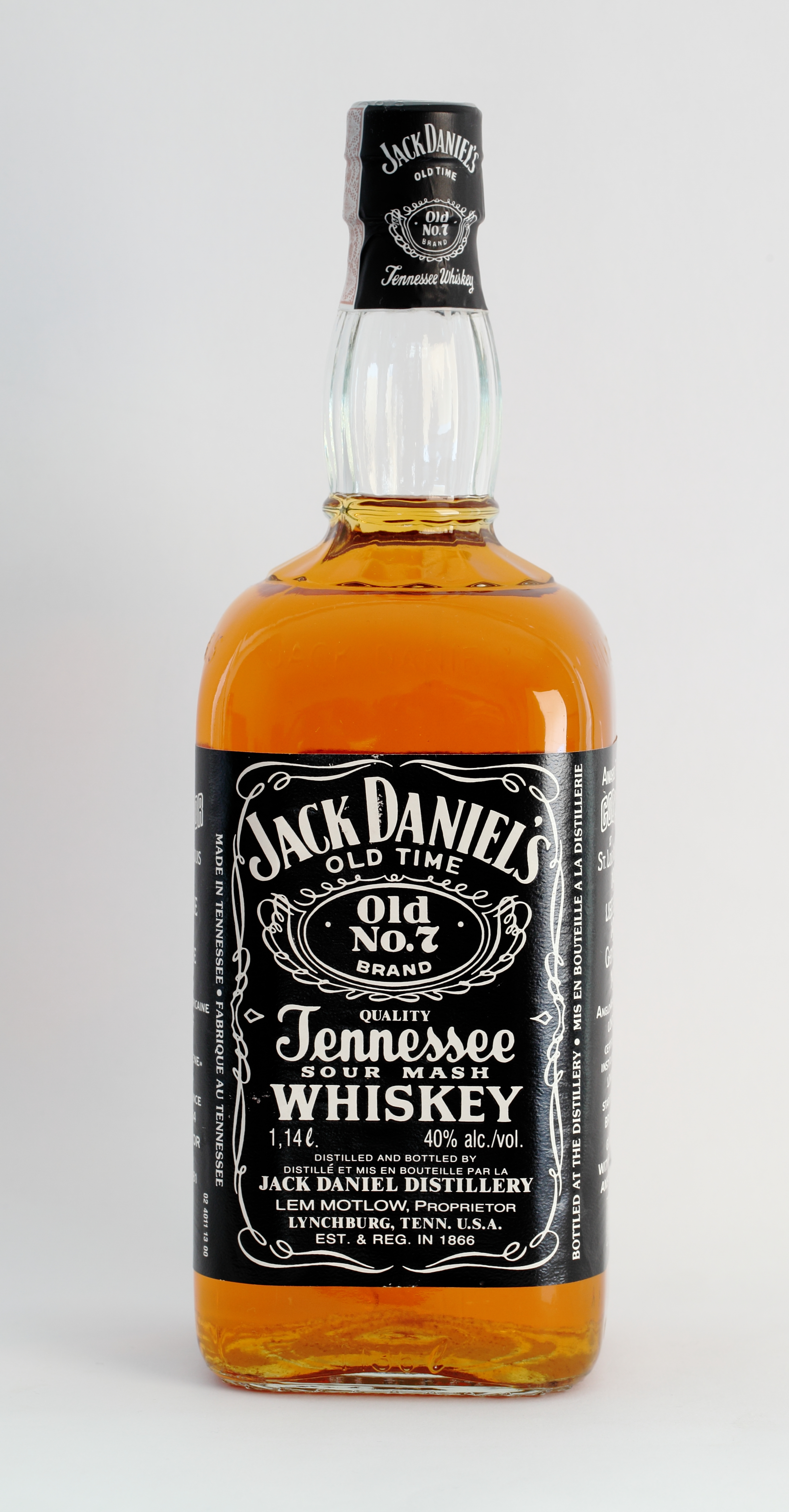 Jack Daniel's Old No. 7, 1,14l, 40%, bought 1992 in Canada